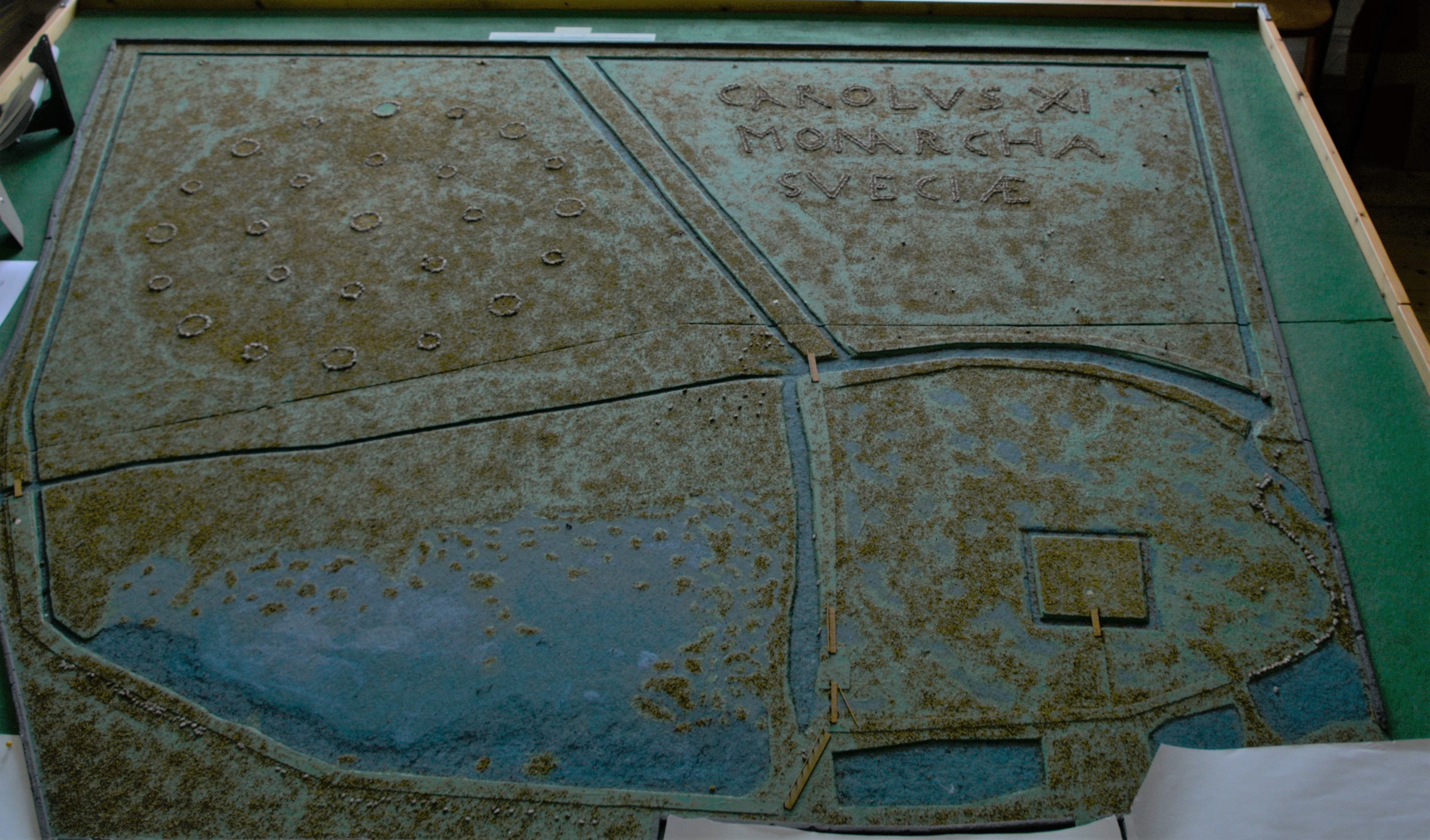 Model of 17th Century park at Östra Sallerup in Skåne, Sweden. View from north, like from the church tower of Östra Sallerup Church.